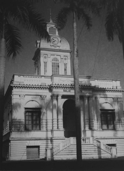 The town hall or Balai Kota